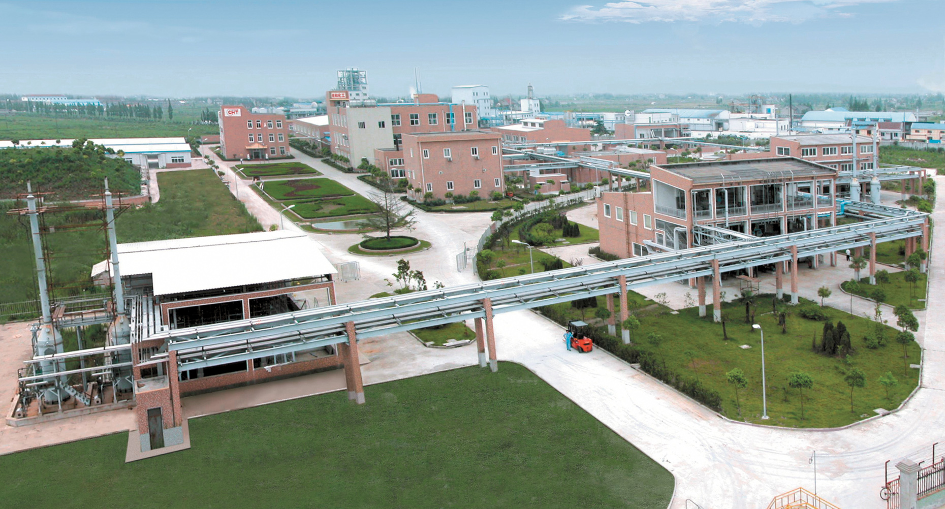 CHT China Factory in Shanghai